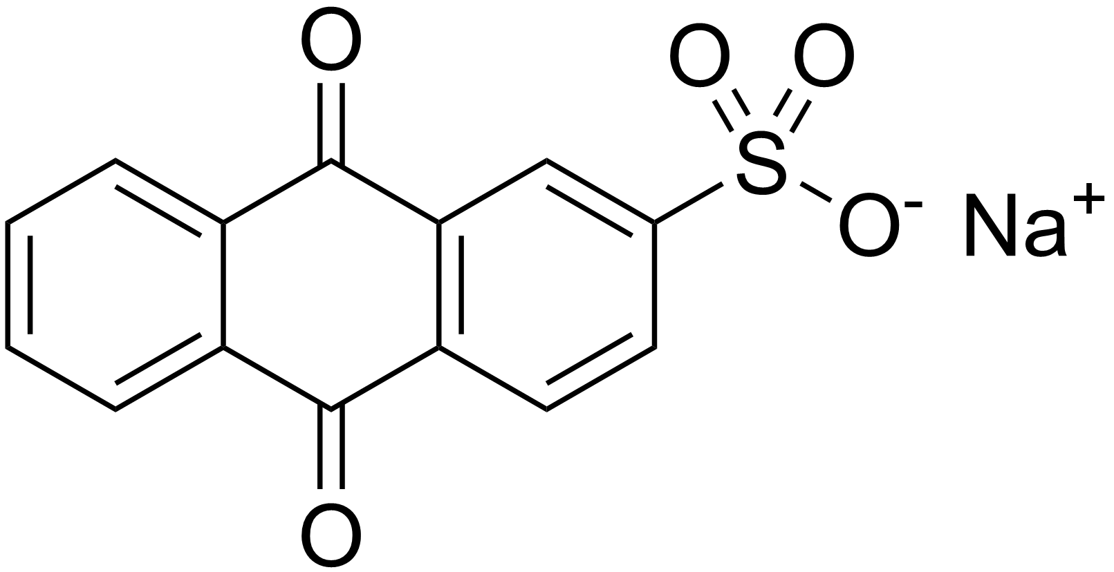 Chemical structure of sodium 2-anthraquinonesulfonate (sodium 2-anthrachinonesulphonate; 2-anthraquinone sodium sulfonate